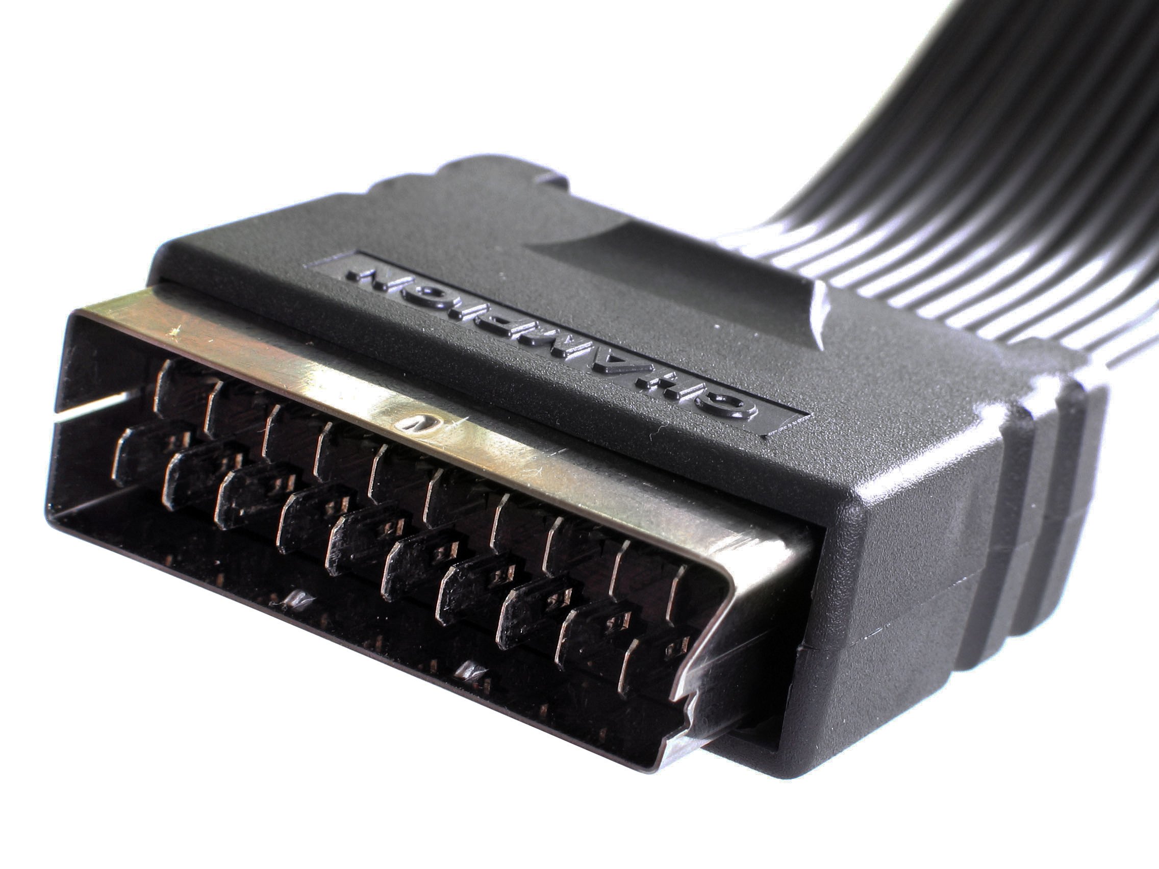 SCART connector, photo taken in Sweden